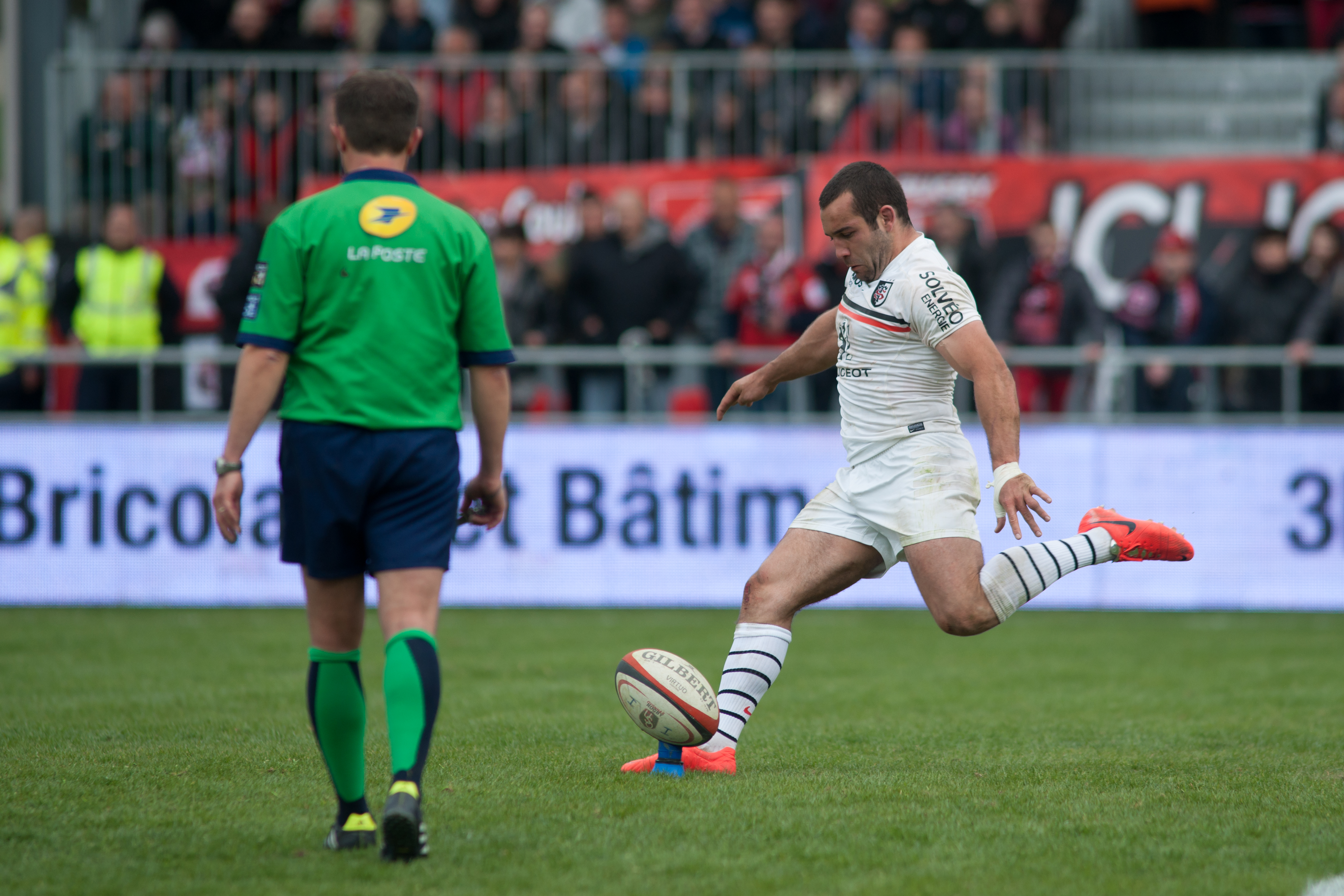 The making of this document was supported by Wikimedia CH.(Submit your project!) For all the files concerned, please see the category Supported by Wikimedia CH. US Oyonnax vs. Stade Toulousain, 19th April 2014